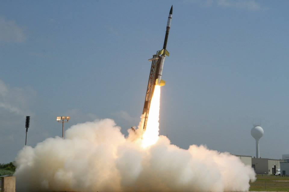 WALLOPS ISLAND, VA – Two suborbital rockets were successfully launched 15 seconds apart this morning from the NASA Wallops Flight Facility as part of a study of electrical currents in the ionosphere. The launch of the Black Brant V at 10:31:25 a.m. and the Terrier-Improved Orion at 10:31:40 were part of the Daytime Dynamo experiment, a joint project between NASA and the Japan Aerospace Exploration Agency, or JAXA. The project is designed to study a global electrical current called the dynamo, which sweeps through the ionosphere. The first rocket carried a payload that collected data on the neutral and charged particles in the ionosphere. The second rocket released a long trail of lithium gas to track how the upper atmospheric wind varies with altitude. These winds are believed to be the drivers of the dynamo currents. The next scheduled launch from Wallops is Terrier-Improved Malemute carrying experiments developed by students in the RockSat-X program. The launch is currently scheduled between 6 and 10 a.m., August 13. More information on the NASA sounding rocket program and the Daytime Dynamo experiment can be found on the web at: Credit: NASA/Wallops/Thom Rogers and Terry Zaperach NASA image use policy. NASA Goddard Space Flight Center enables NASA’s mission through four scientific endeavors: Earth Science, Heliophysics, Solar System Exploration, and Astrophysics. Goddard plays a leading role in NASA’s accomplishments by contributing compelling scientific knowledge to advance the Agency’s mission. Follow us on Twitter Like us on Facebook Find us on Instagram